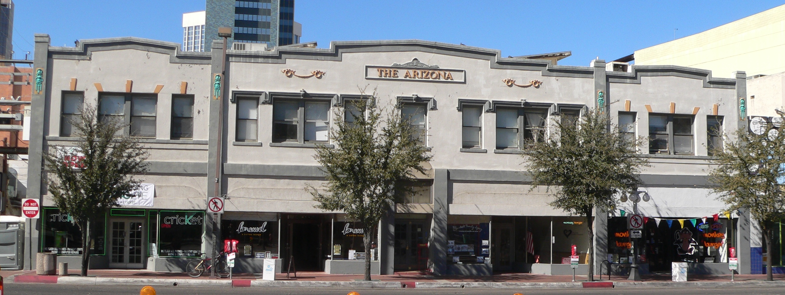 Arizona Hotel building, located on west side of 6th Avenue between Congress and Pennington Streets in Tucson, Arizona; seen from the east, across 6th Avenue.